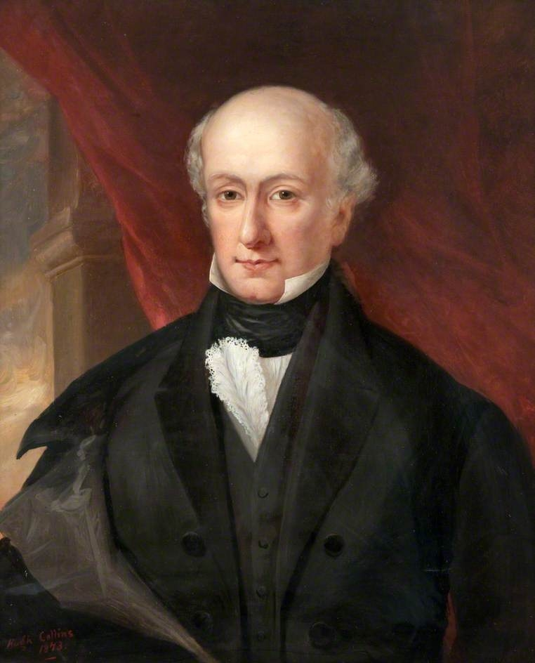 Posthumous portrait of George Kinloch (1775–1833). Portrait is an adaptation of this 1832 lithograph by Miss M. Saunders, printed by Charles Joseph Hullmandel.